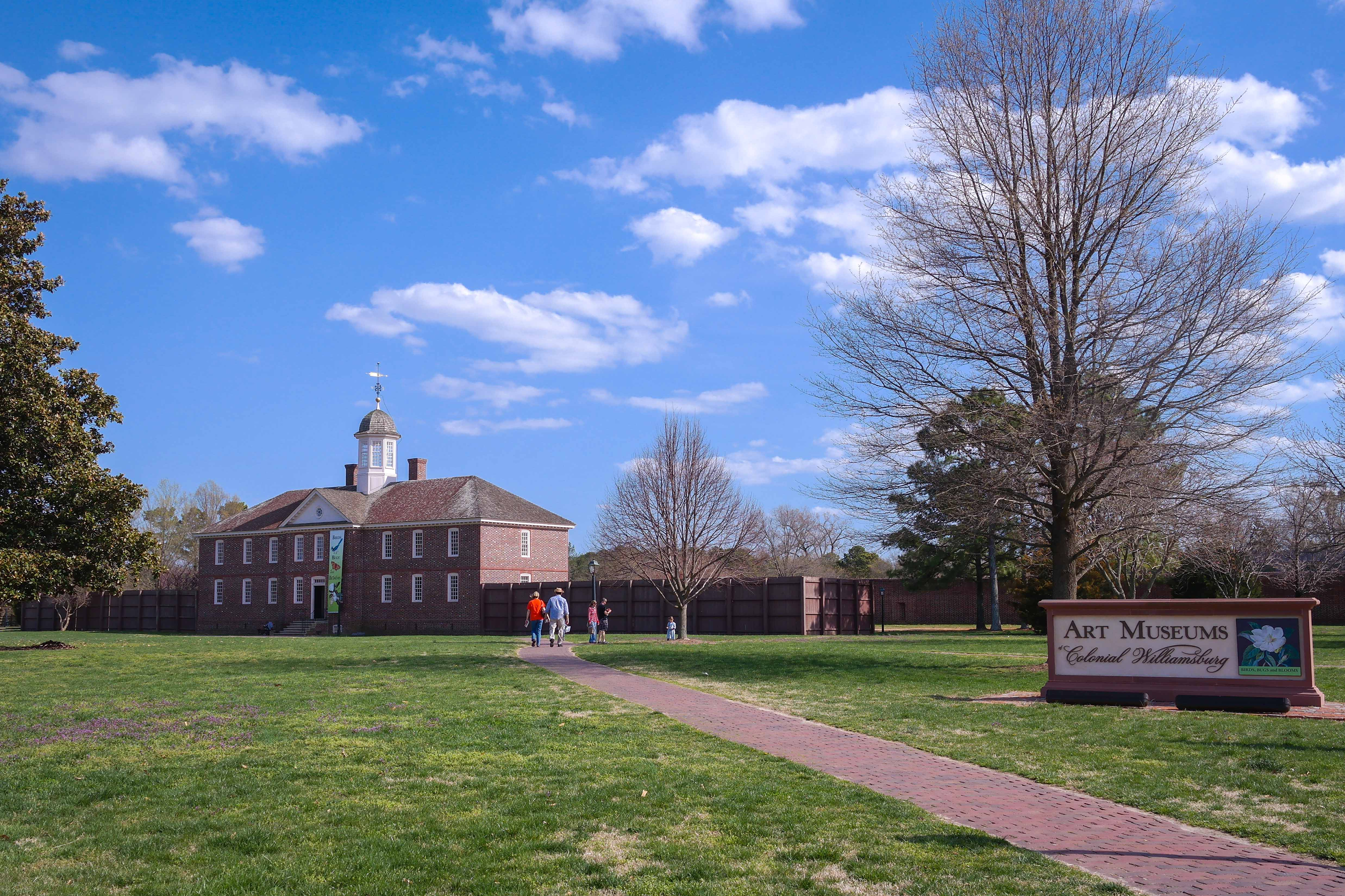 A view of the DeWitt Wallace Decorative Arts Museum in Williamsburg, Virginia